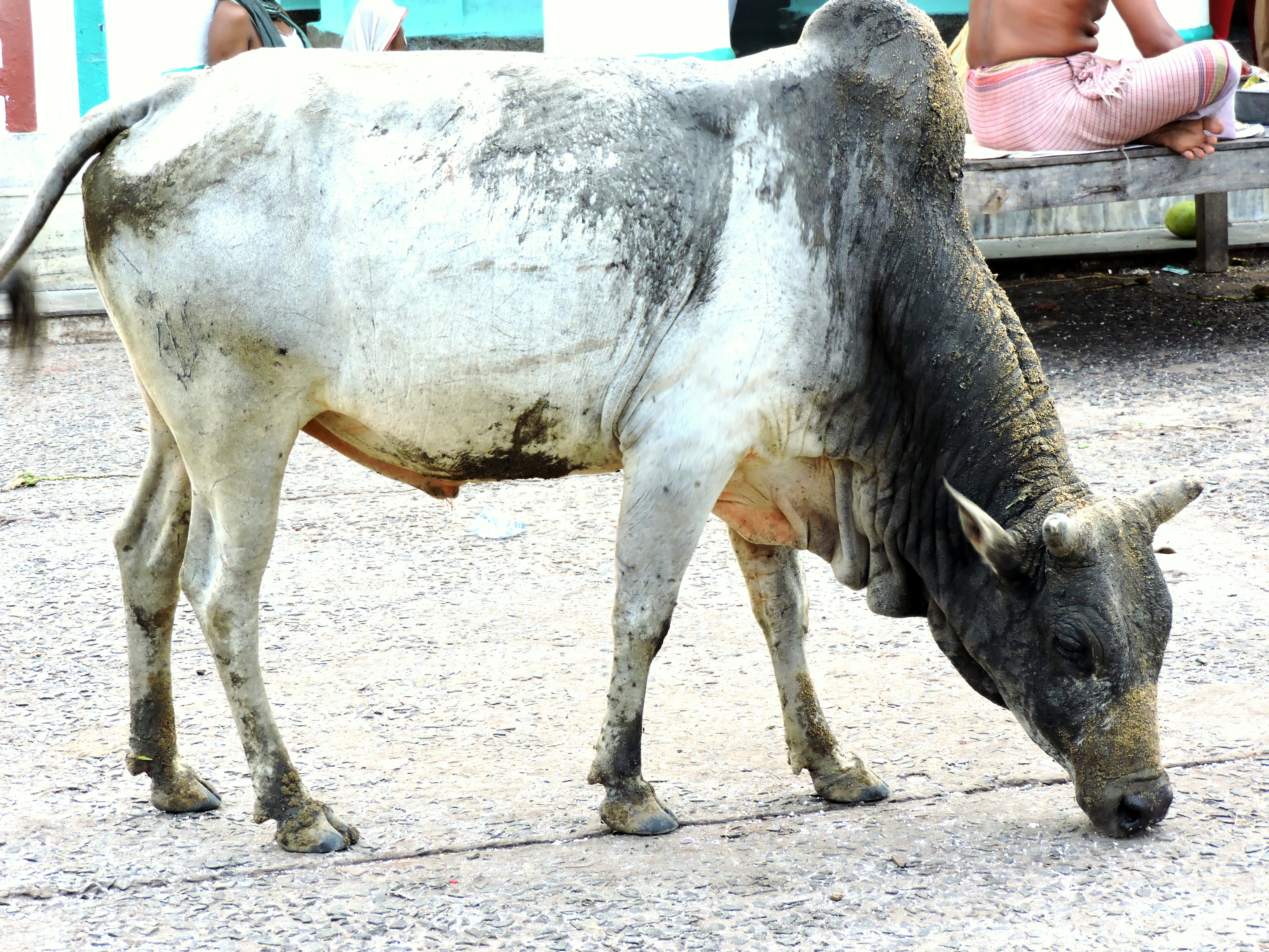 An old ox in chandaneswar temple searching for food